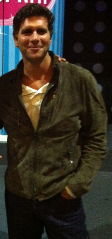 Peruvian actor Christian Meier Zender at musical "Hairspray", on Peruano Japones Theatre, Lima, Perú. 20 July 2012.